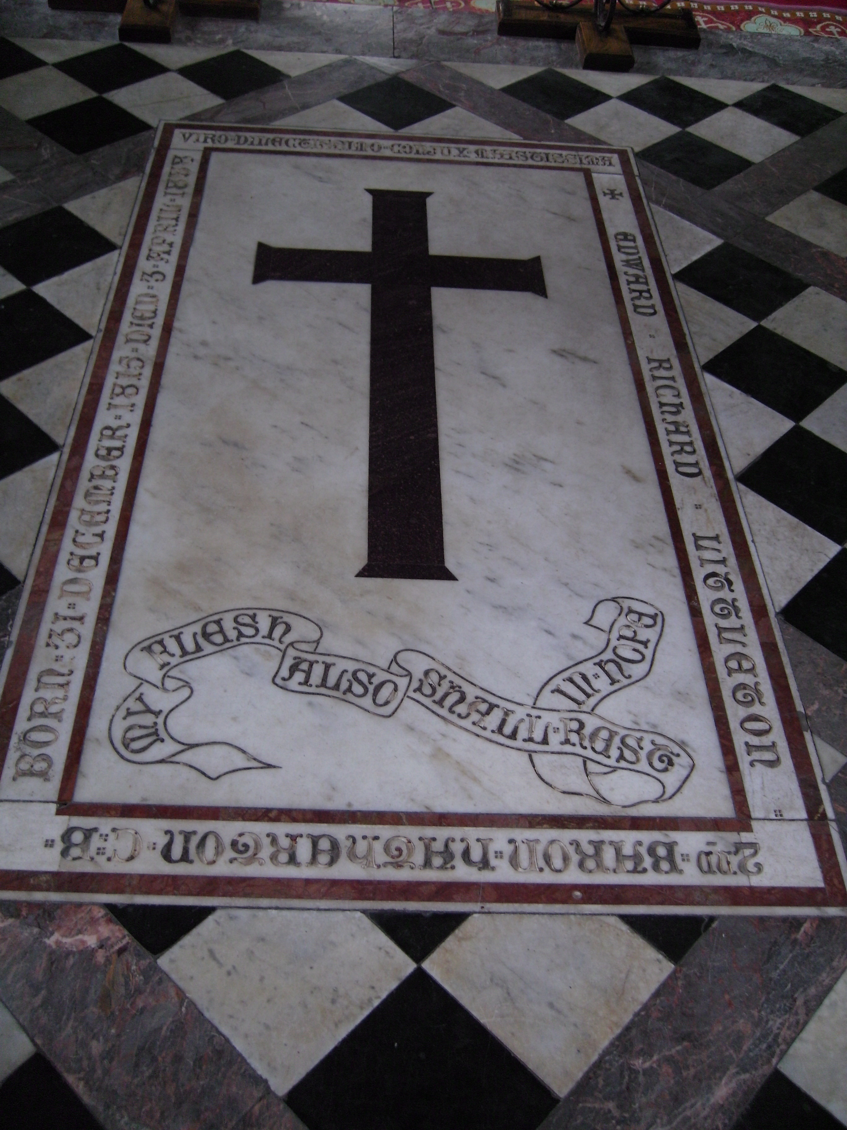 Penkridge, Staffordshire: St. Michael and All Angels church. Tomb of Edward Richard Littleton, 2nd Baron Hatherton. in the chancel.